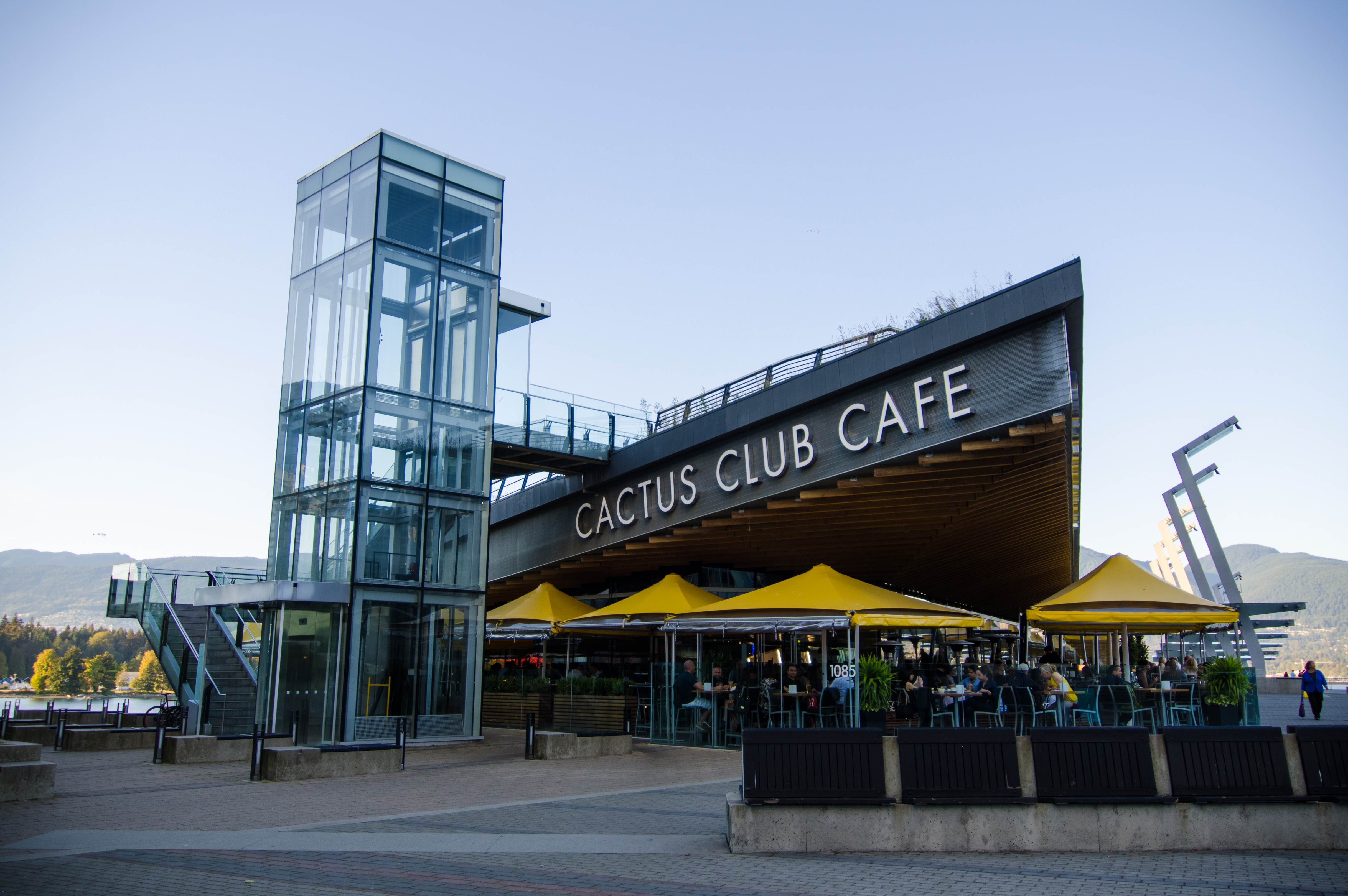 Seen in Arrow & Caprica.